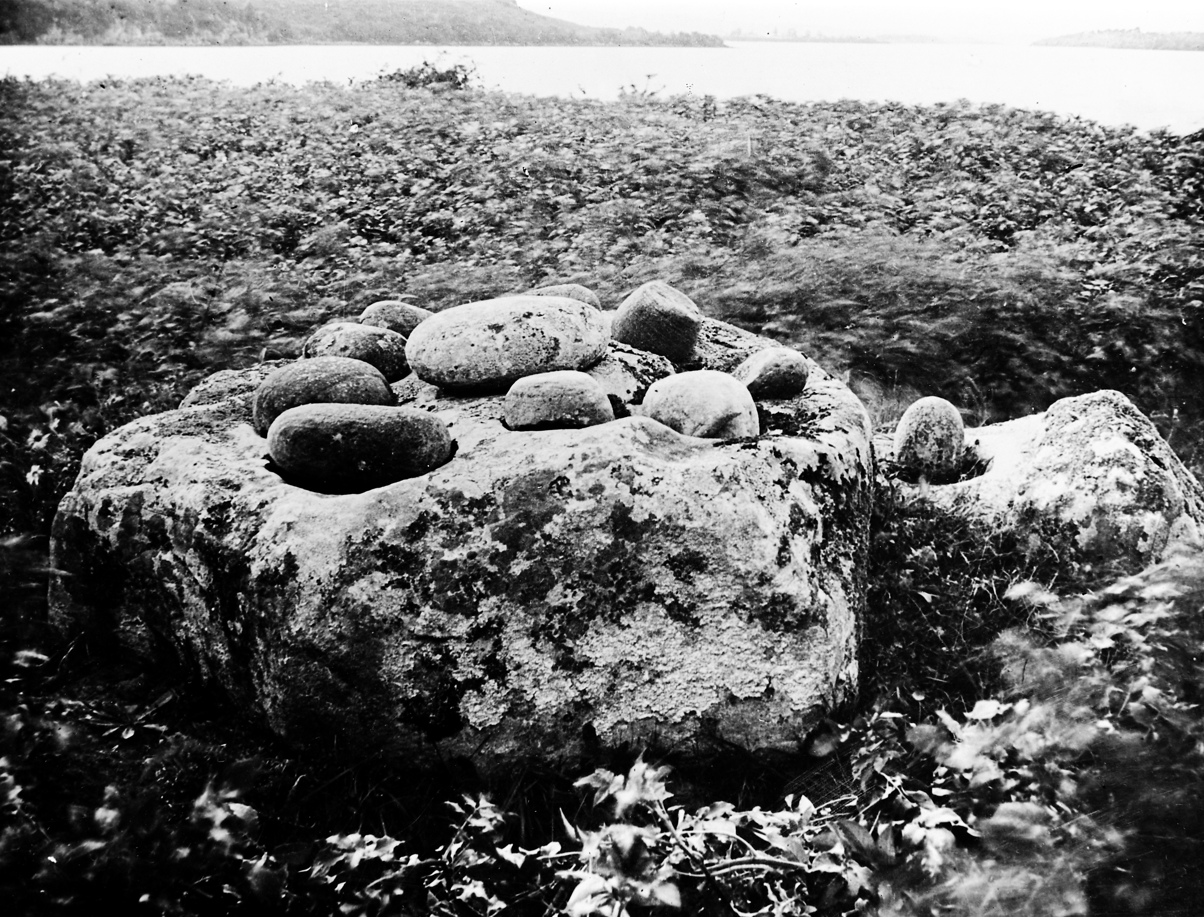 St Brigid's stone, Blacklion Co. Cavan. Stones used for cursing and blessing. Wellcome Images Keywords: folk-lore; curse; Magic